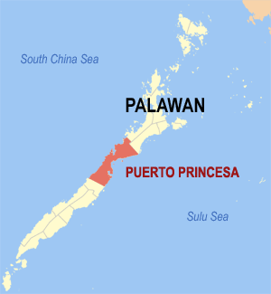 Map of Palawan showing the location of Puerto Princesa